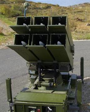 NASAMS. June 2005. Live missiles in Bodø, Norway